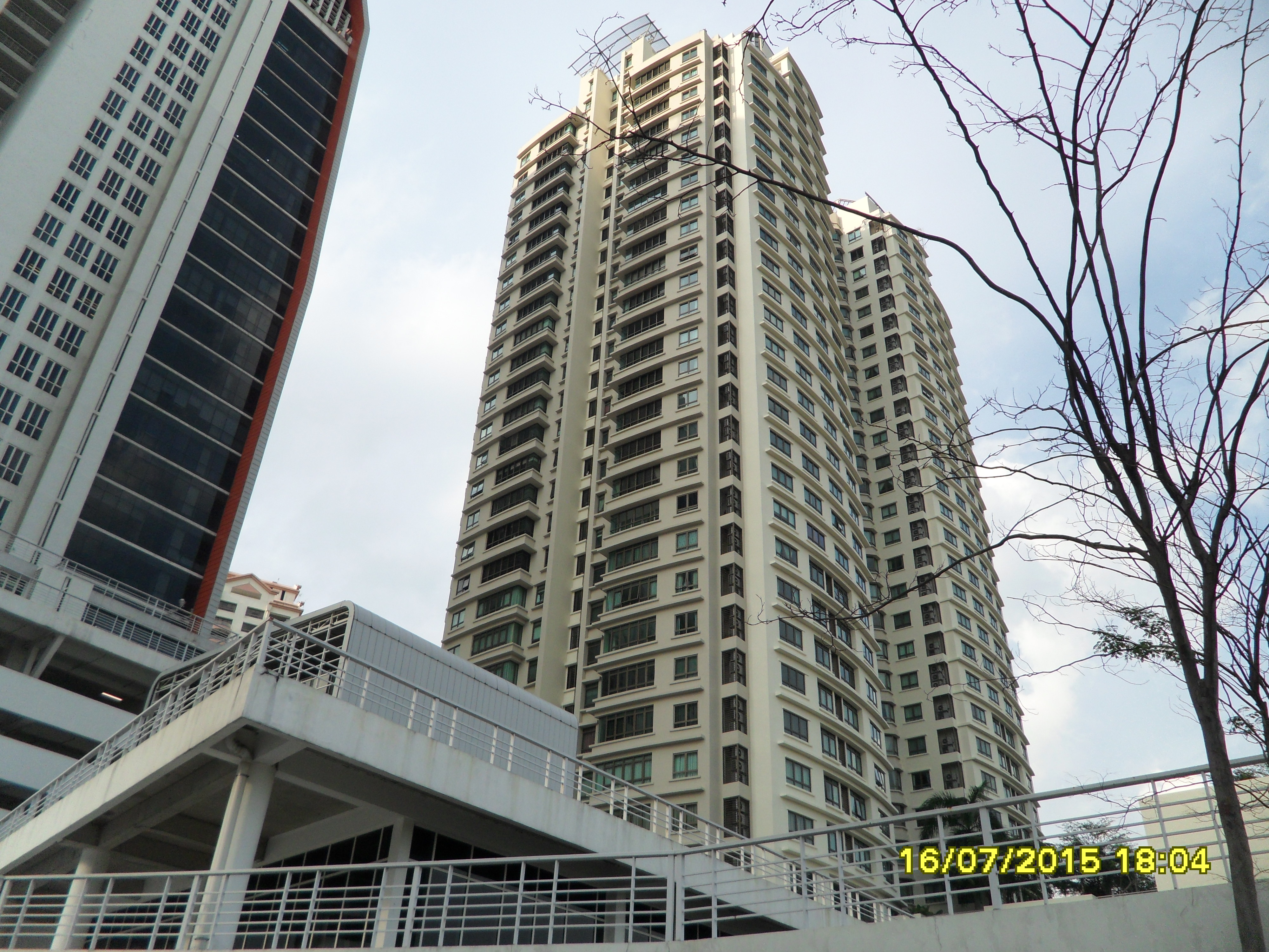 Mont Kiara condimonium